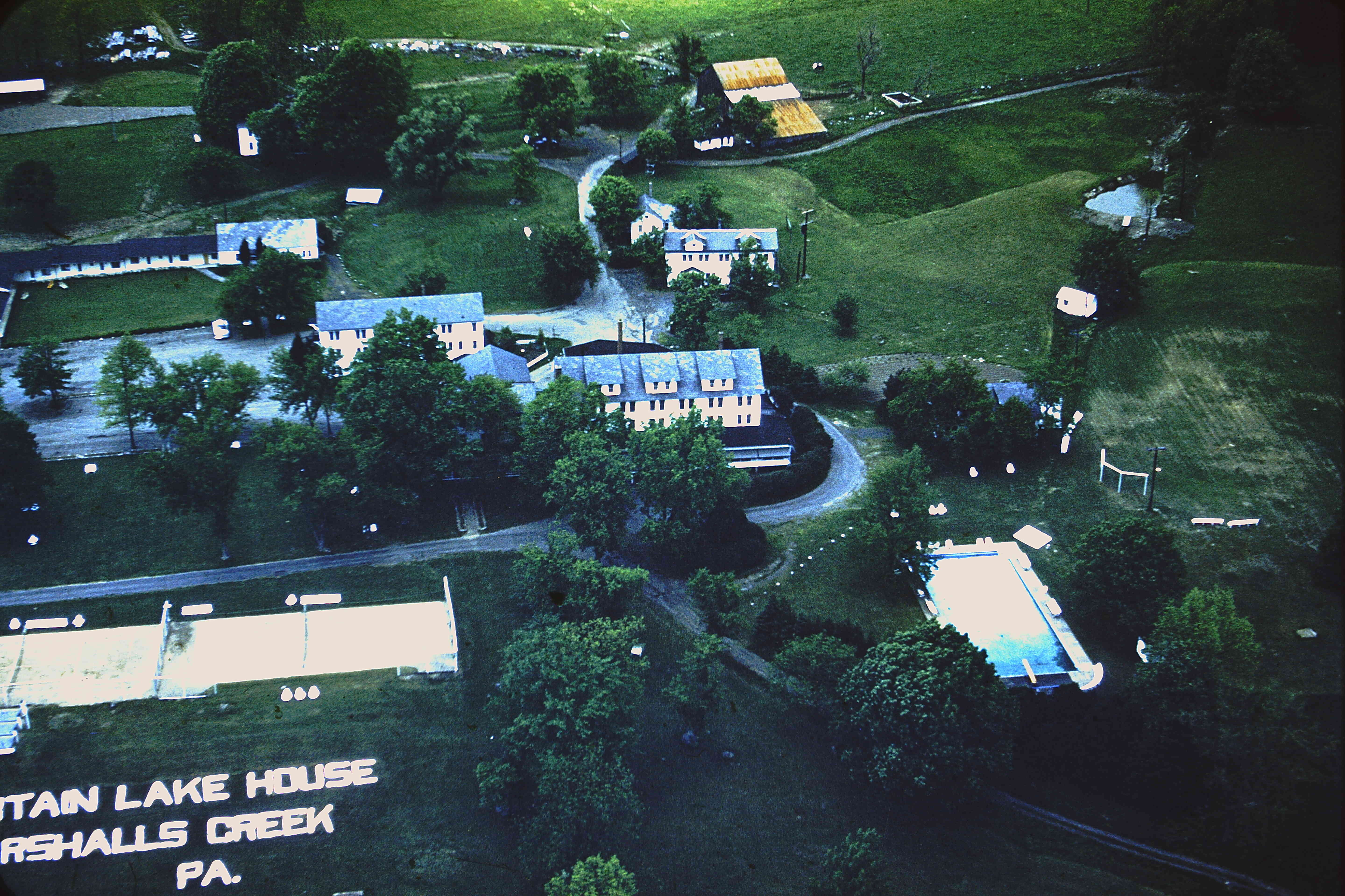 Kodachrome slide showing an aerial view of the Mountain Lake House in May 1954